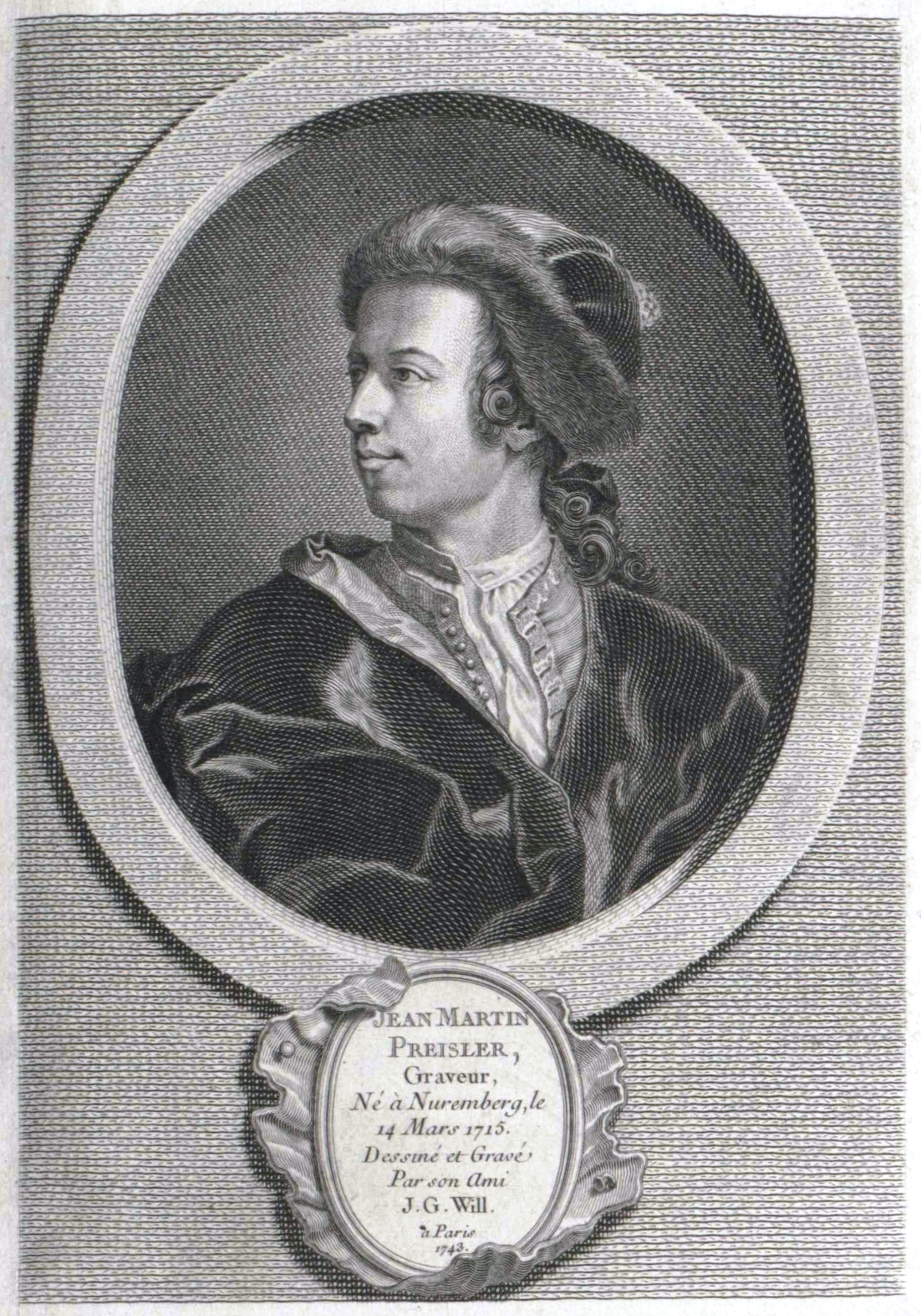 Portrait of Johan Martin Preisler (1715-1794)